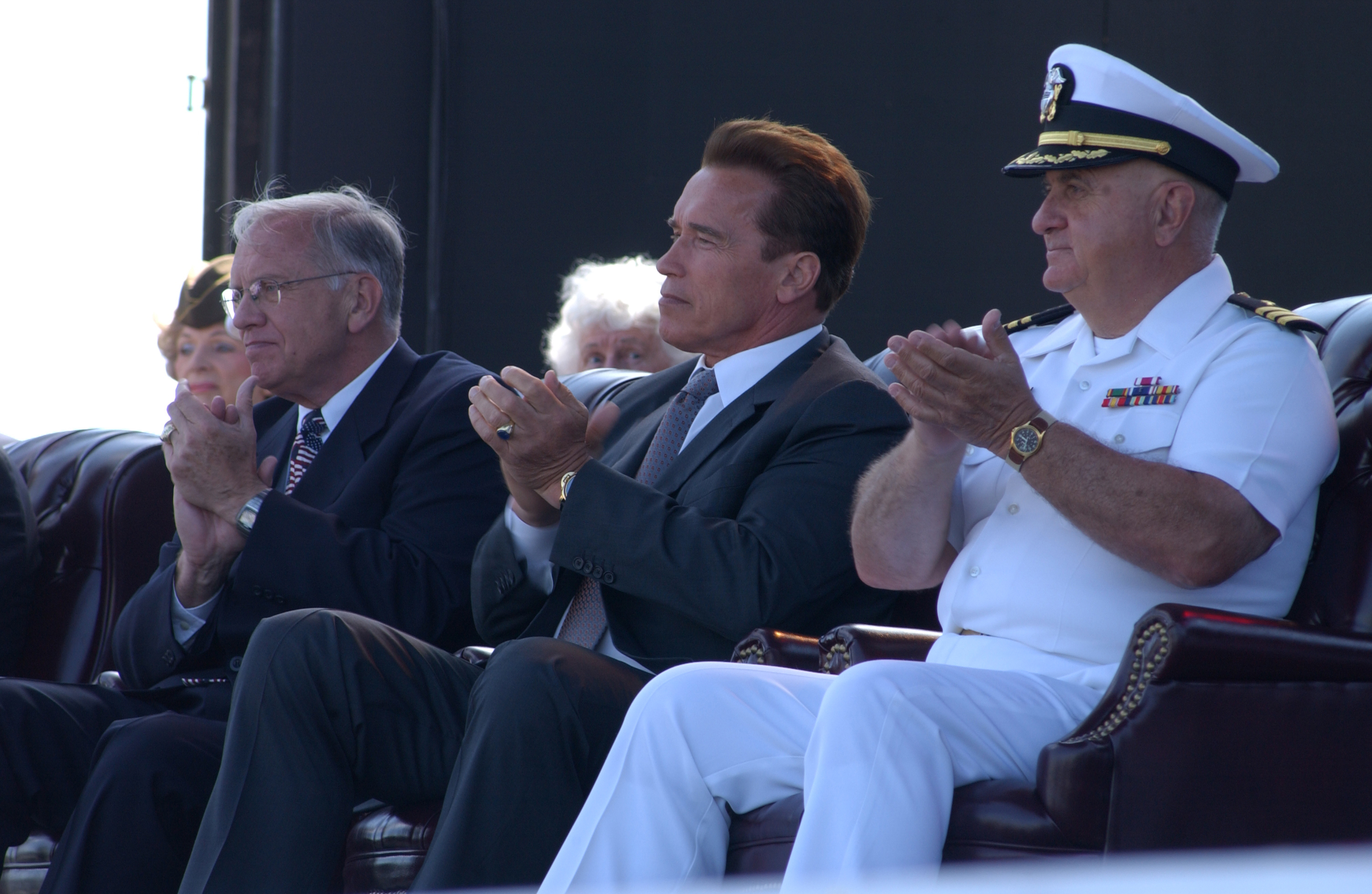 San Diego (May 29, 2005) – From left, San Diego Mayor Dick Murphy, California Gov. Arnold Schwarzenegger and Cmdr. Ron Ritter applaud World War II veterans during a 60th anniversary commemoration ceremony of World War II. The ceremony was organized by the Department of Defense World War II 60th Anniversary Commemoration Committee to pay tribute and recognize World War II veterans for their outstanding service and sacrifice during the Memorial Day weekend. U.S. Navy photo by Photographer's Mate 3rd Class Stefanie Broughton (RELEASED)